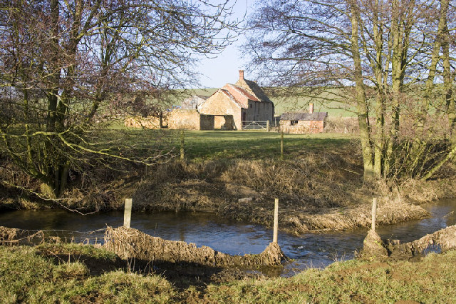 Barford St. John Mill. A disused water mill on the River Swere about 600 metres east of the village.